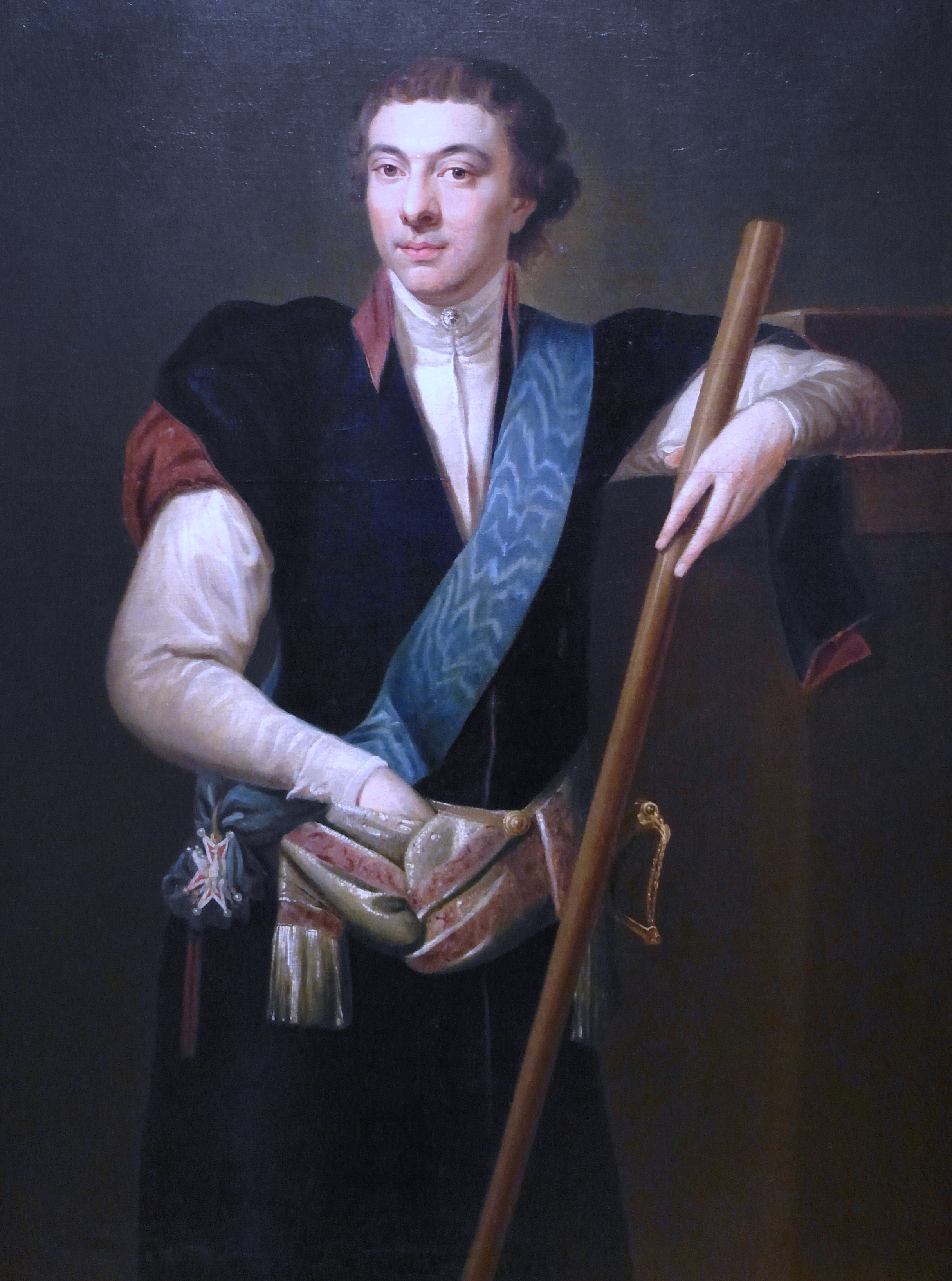 Kazimierz Nestor Sapieha by Józef Peszka